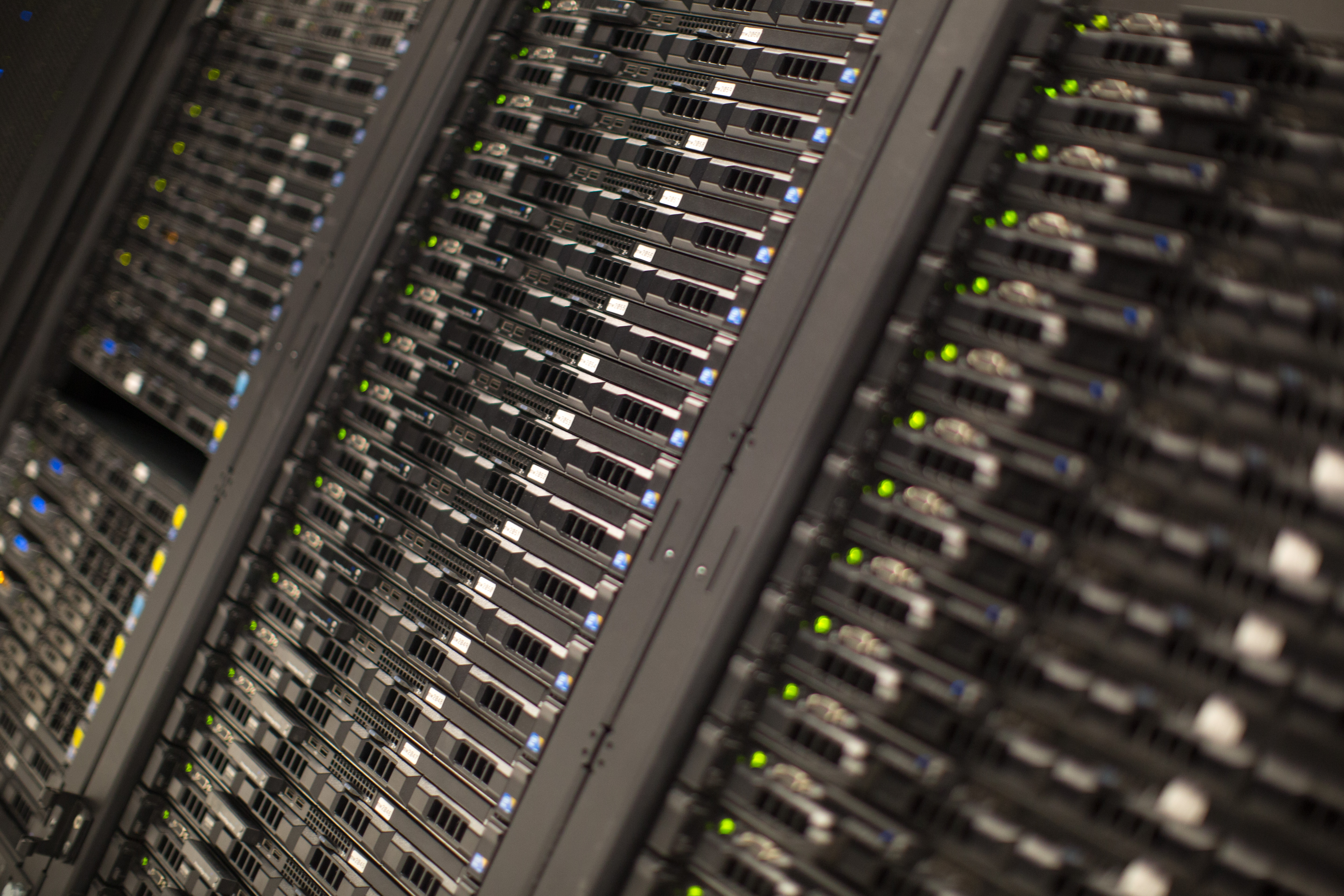 Wikimedia Foundation Servers 2015